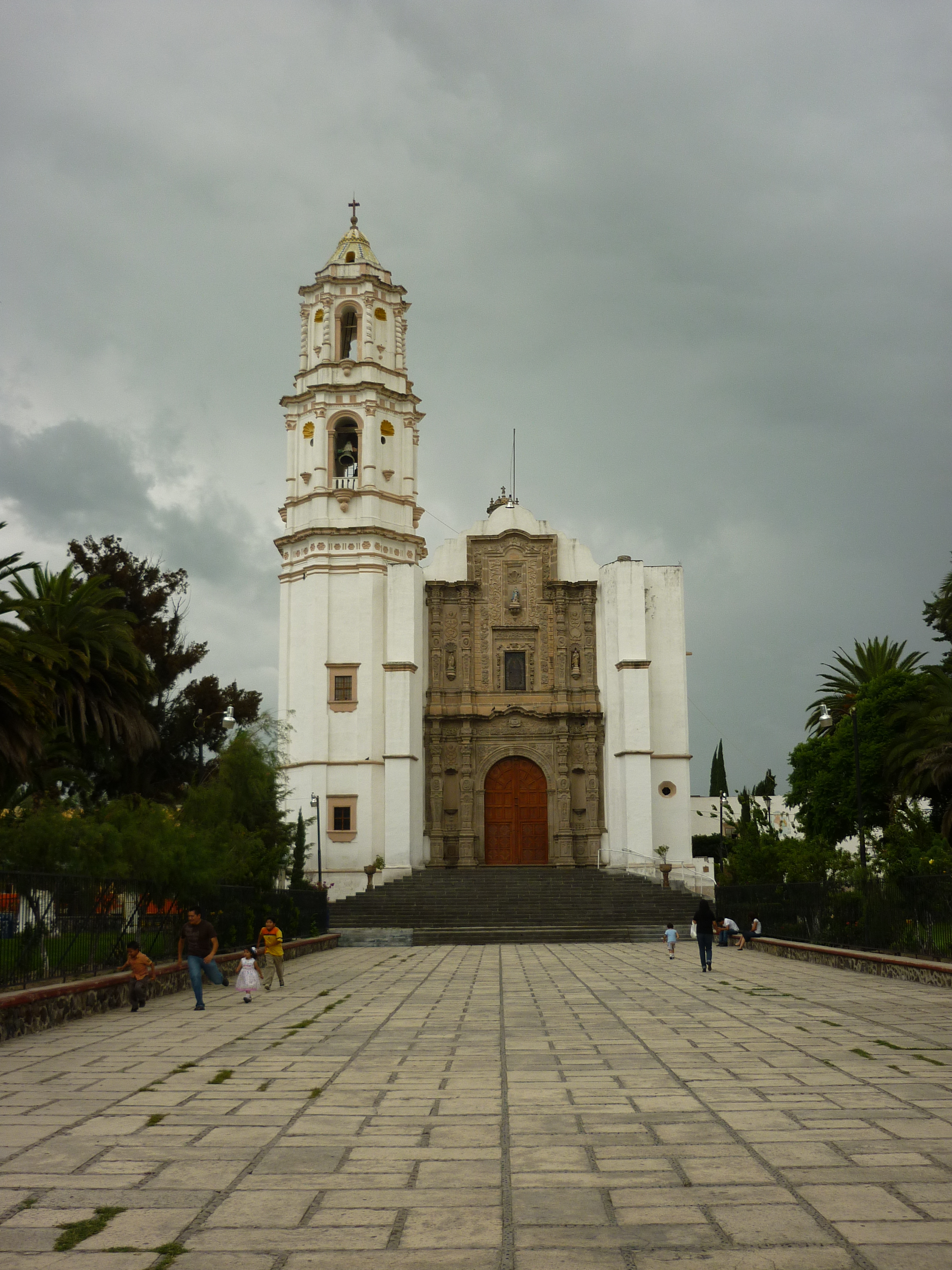 Church in Ozumbilla, Tecmac